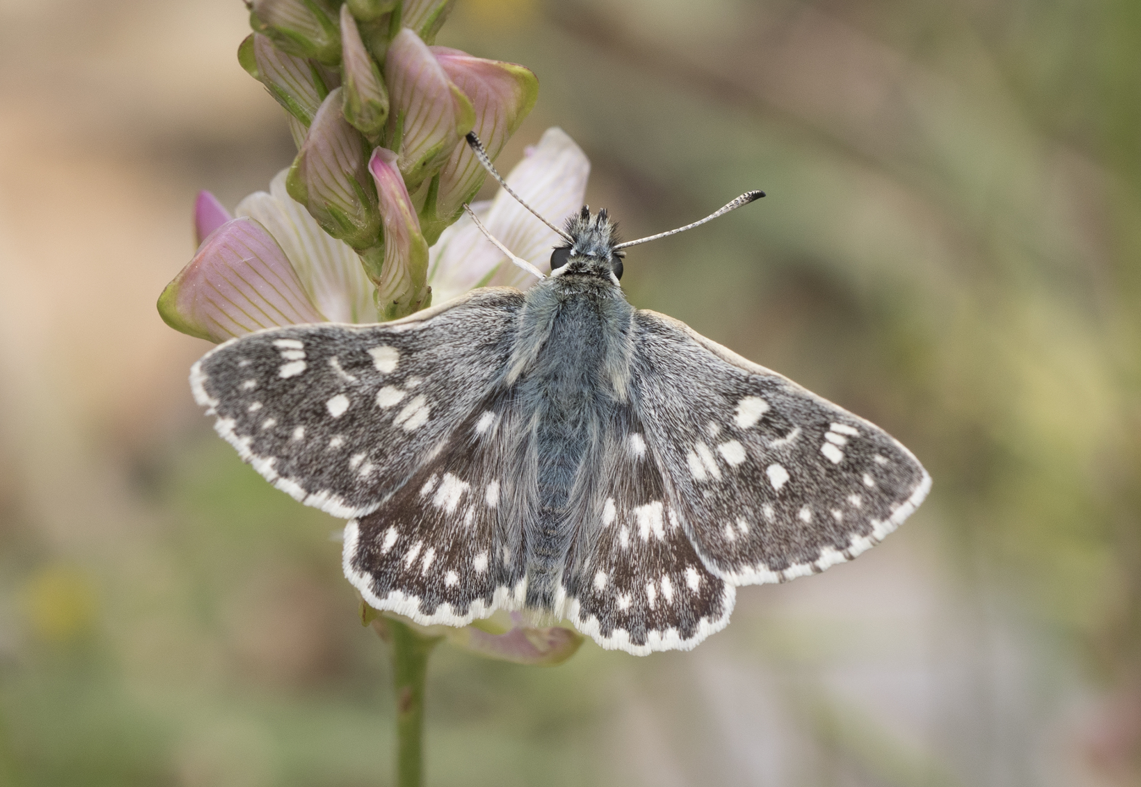 Wing upperside view of a Tessellated Skipper (Muschampia tessellum). Cöbük Forest, Saimbeyli - Adana, Turkey.